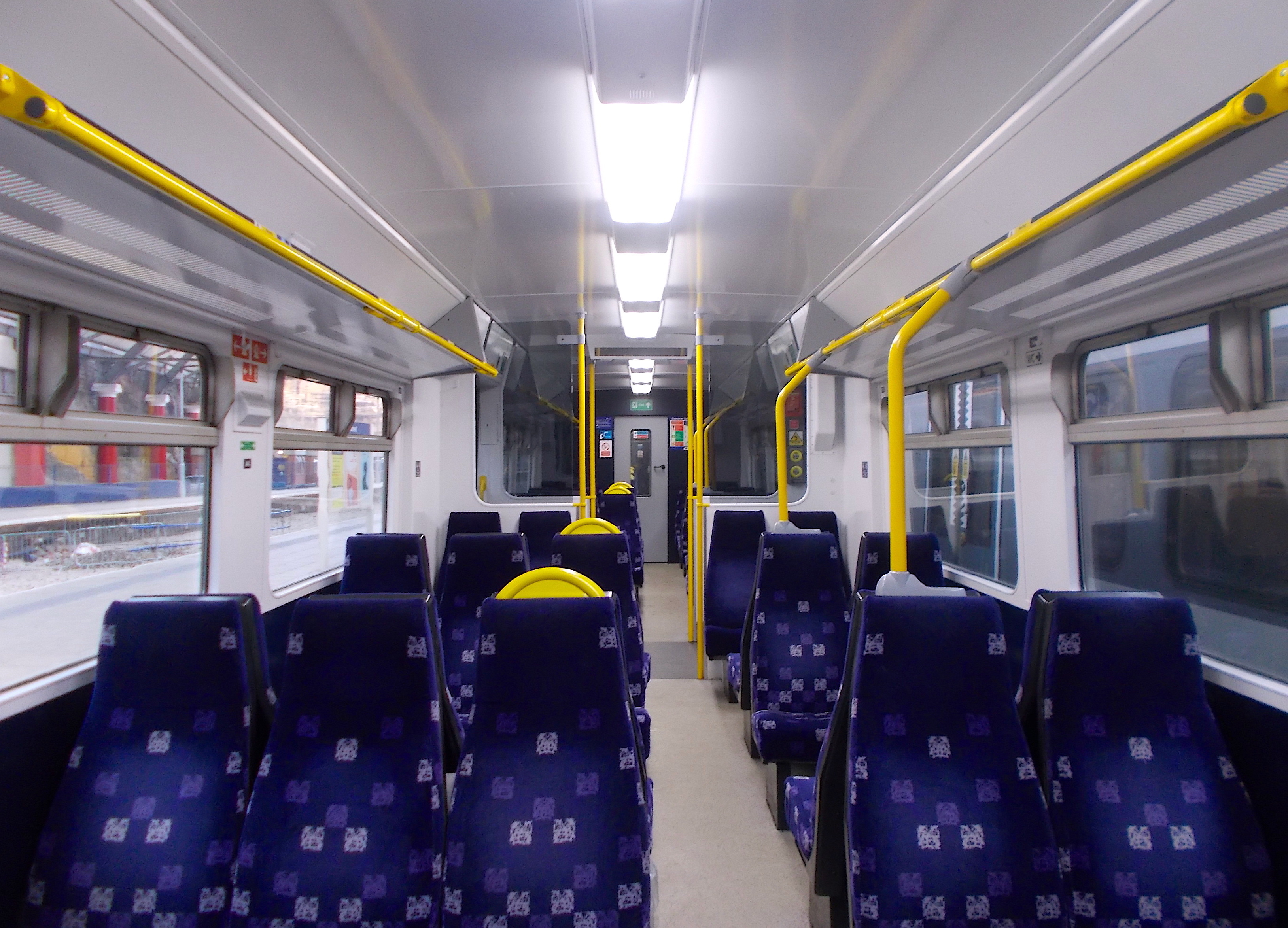 The refurbished interior of a Northern Class 319/3 TSO vehicle, showing the new flooring and repainted sanchlions